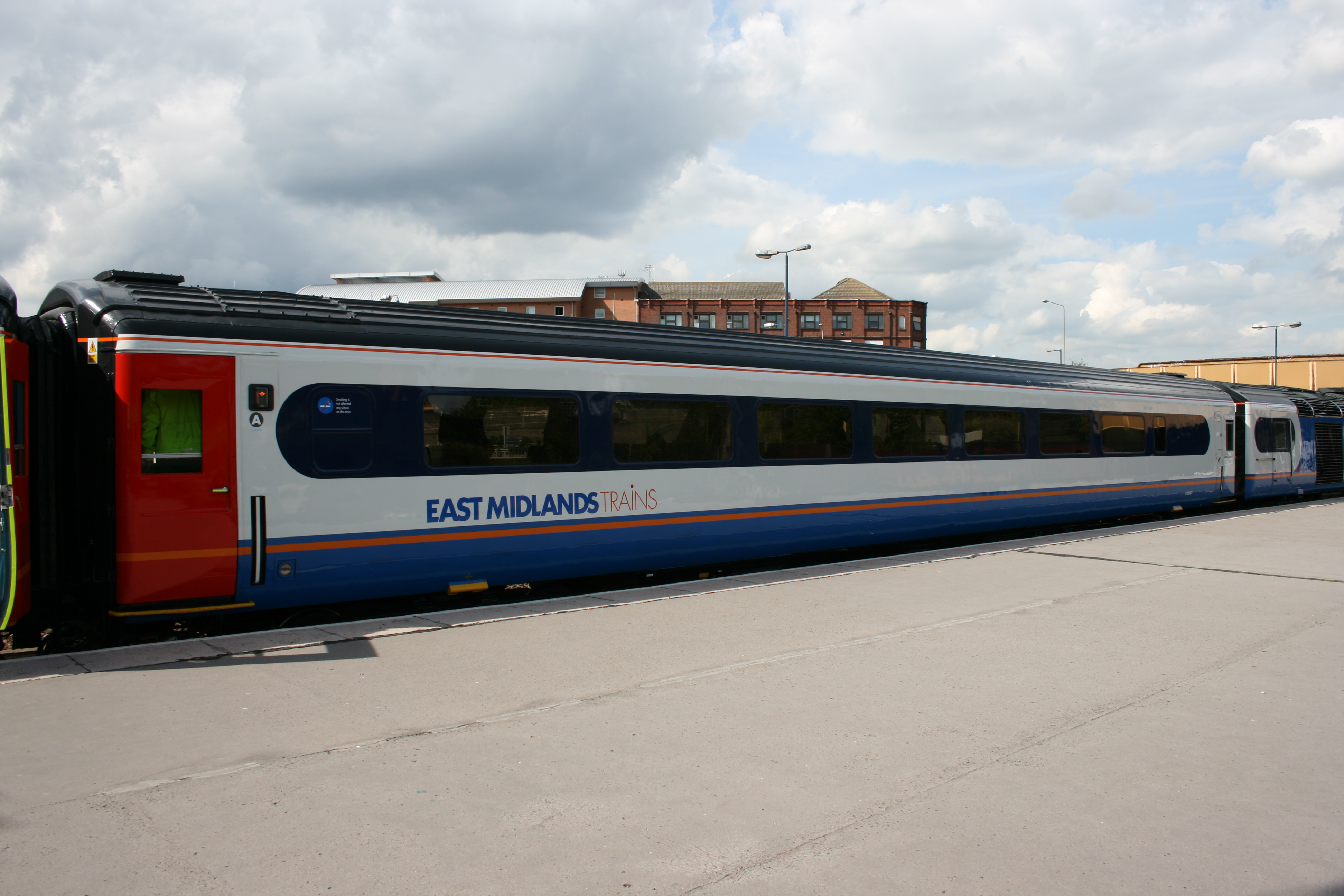 East Midlands Train Class 43 no. 43058, the first EMT Class 43 in the company's livery, shown on the first day in operation at Leicester railway station with a southbound service.